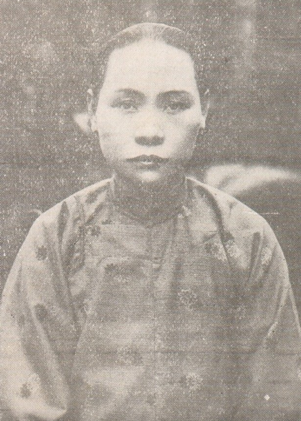 Tiunn Li Tek-ho 張李德和